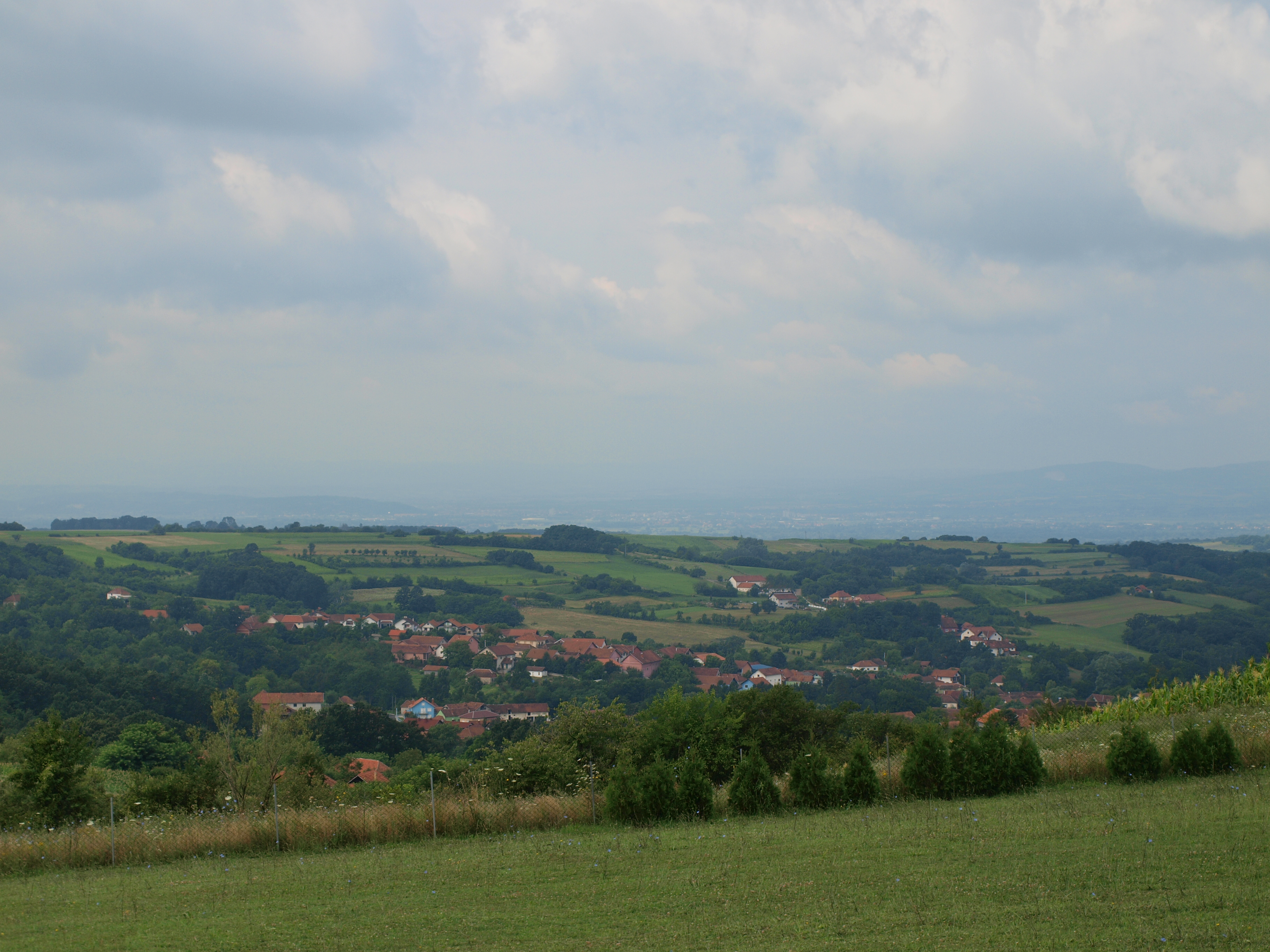 Villgae of Virine, Šumadija, Srbija.